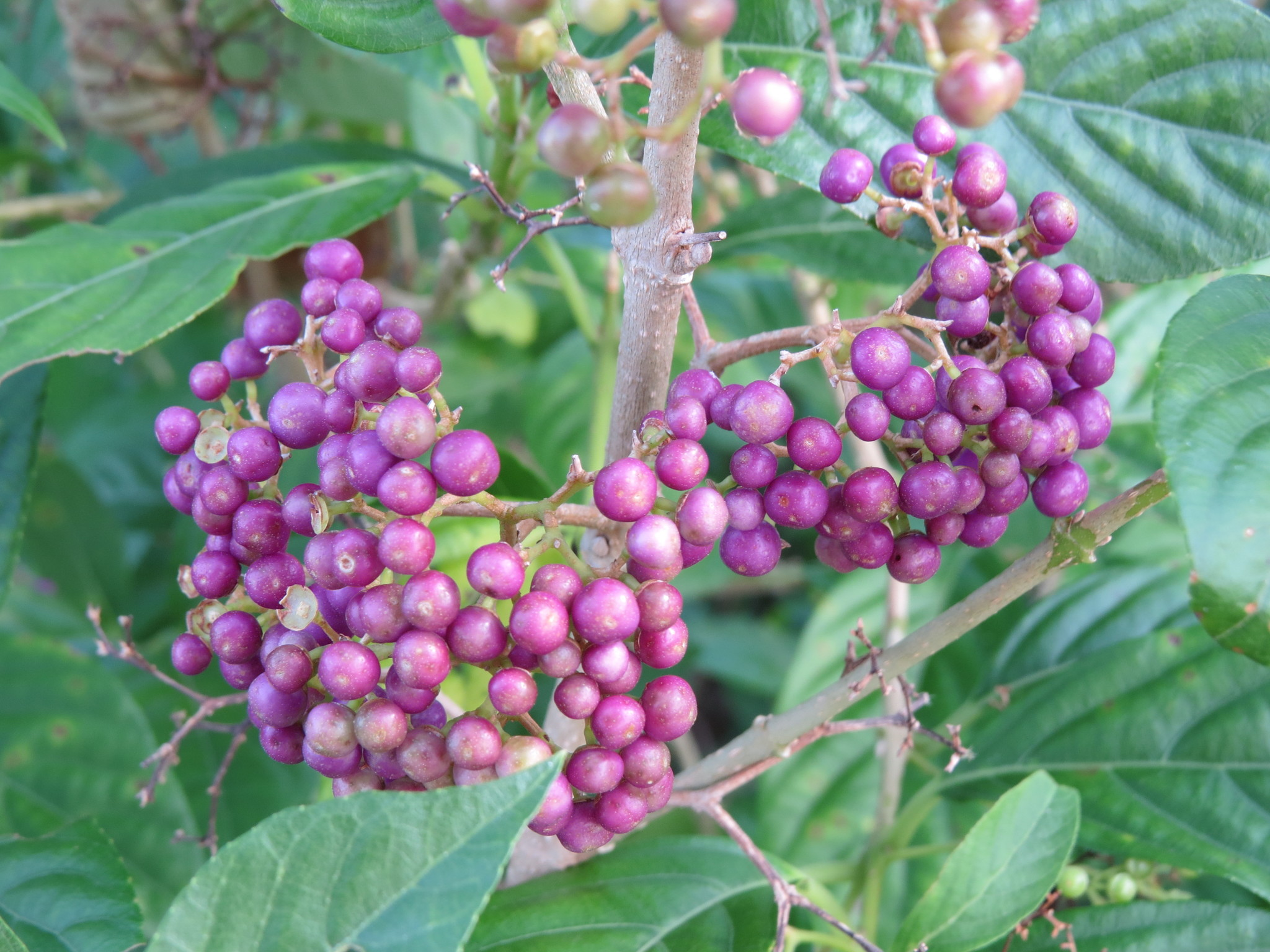 Fruits of Japanese Beautyberry (Callicarpa japonica var. luxurians Rehd.) in Ishigaki Island, Japan